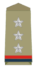 Insignia of Police Inspector